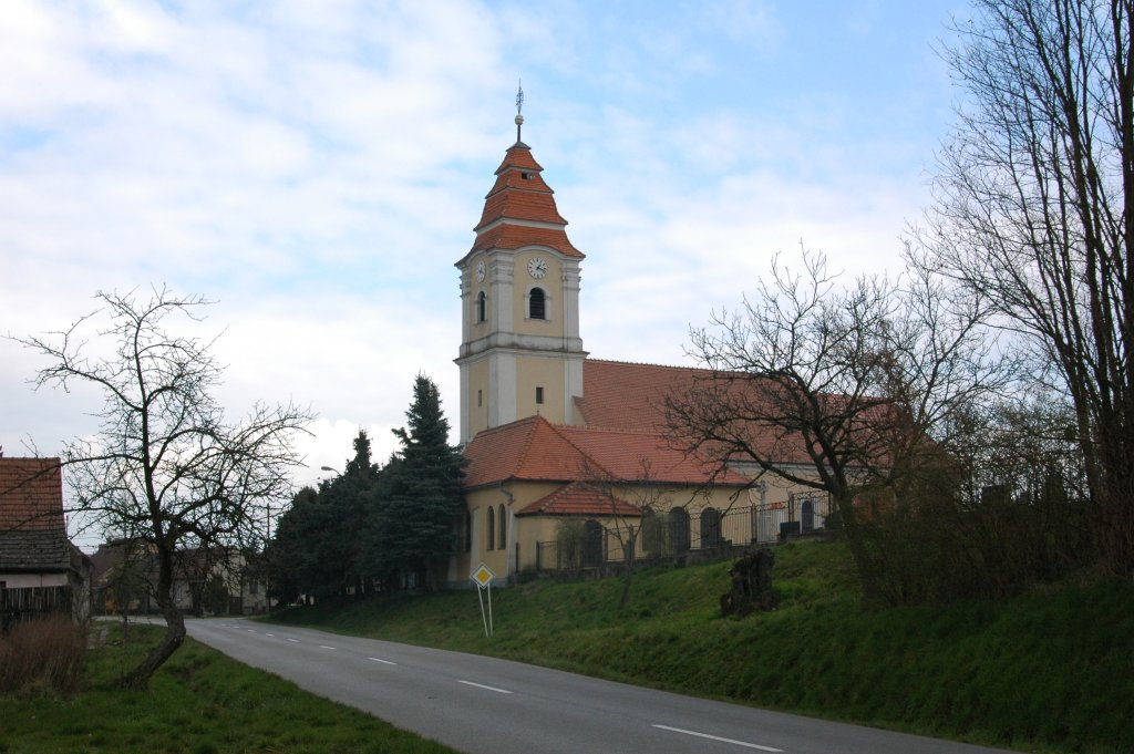 Smolinské, Saint Jacob's (St. James the Great) church (1720)